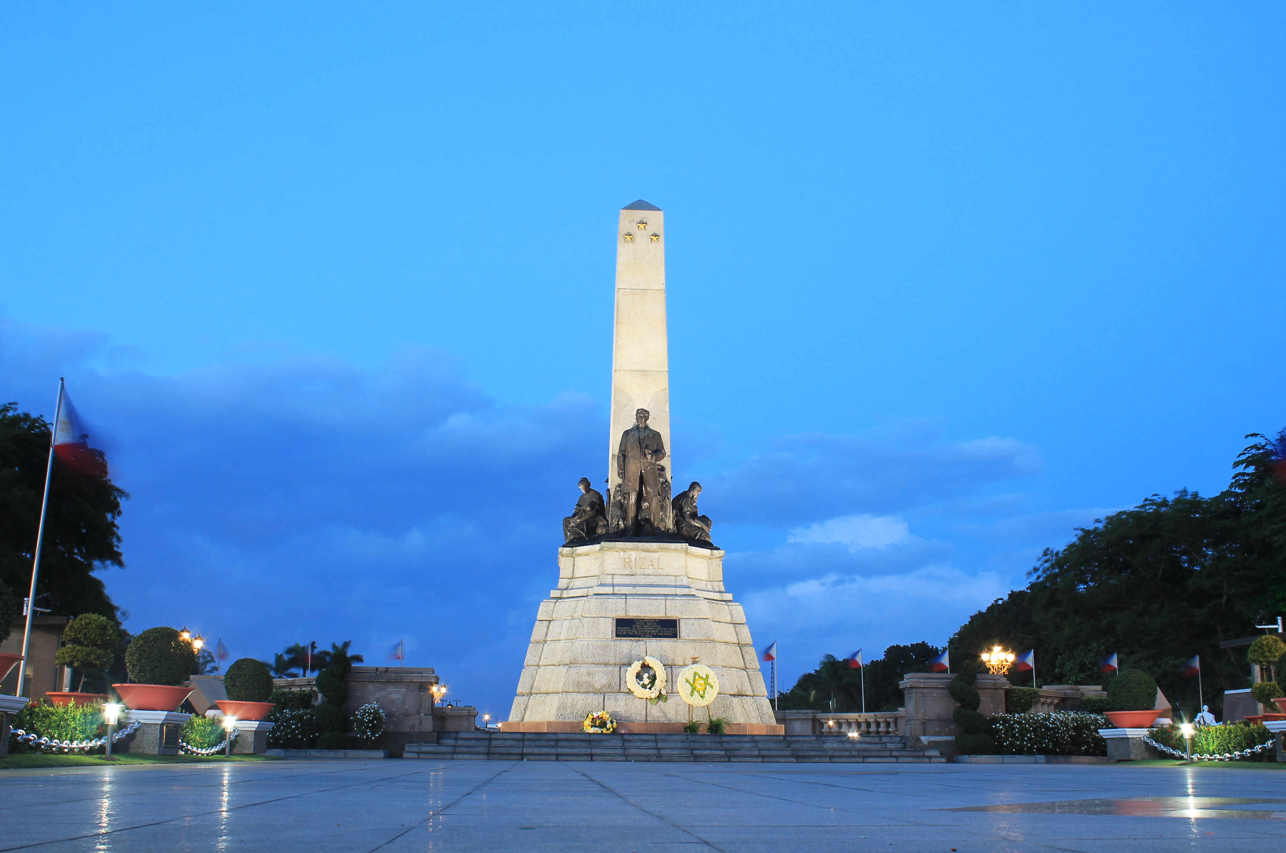 Blue, the color in the Phillippine flag which means peace, dominates in this photo of the Luneta Park (Rizal Park). Photo was taken during the dusk of the 114th Anniversary of Phillipine Independence.